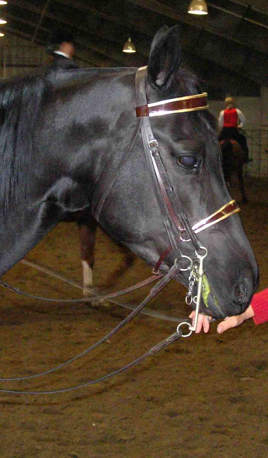 A double bridle used for Saddle Seat riding on an Arabian horse